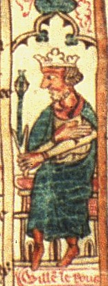 William II of England